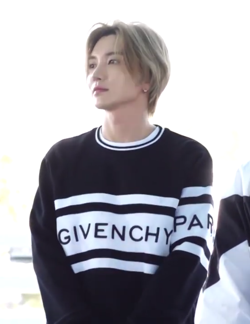 Leeteuk at Incheon airport